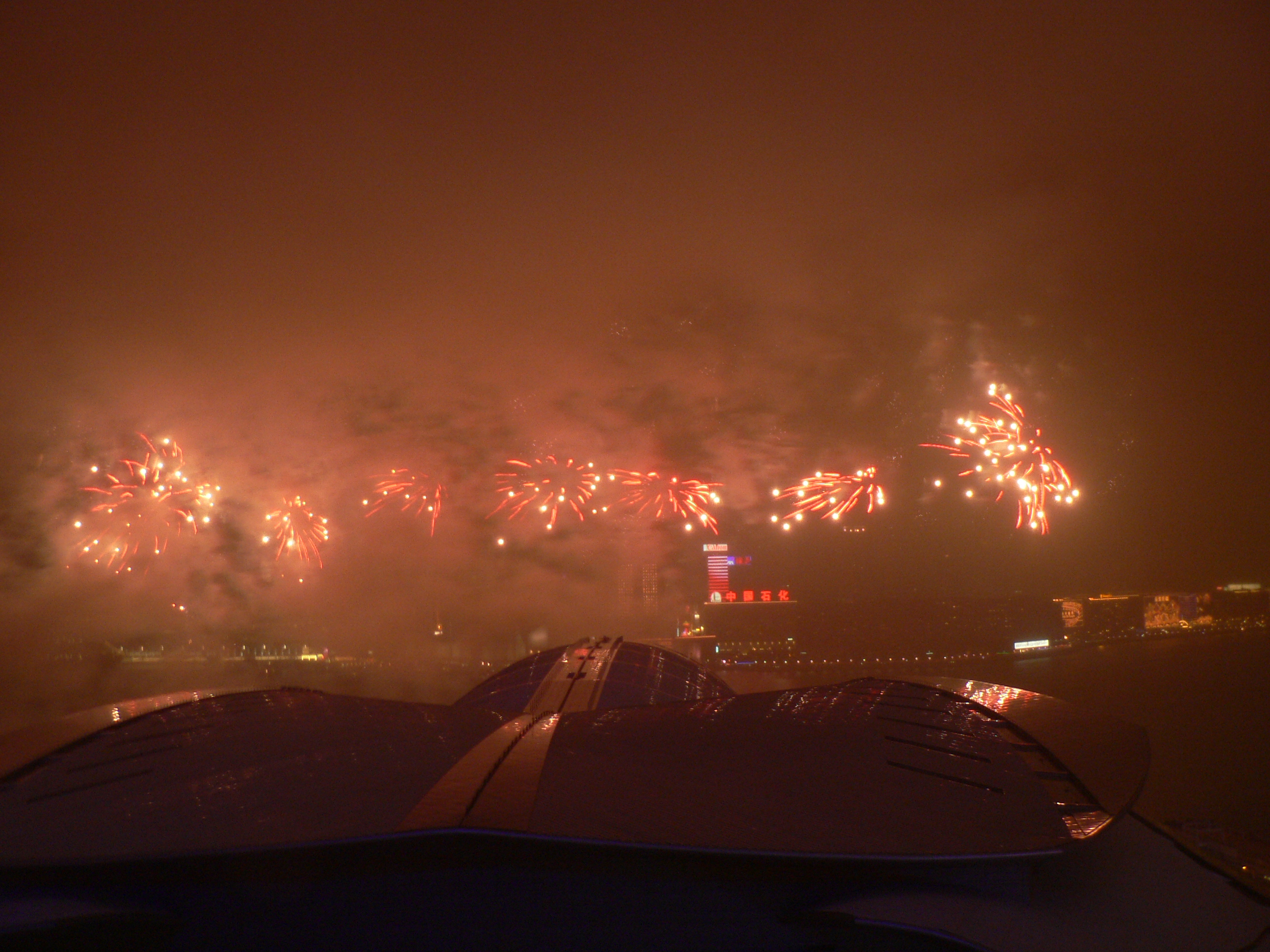 Hong Kong Lunar New Year Fireworks 2007